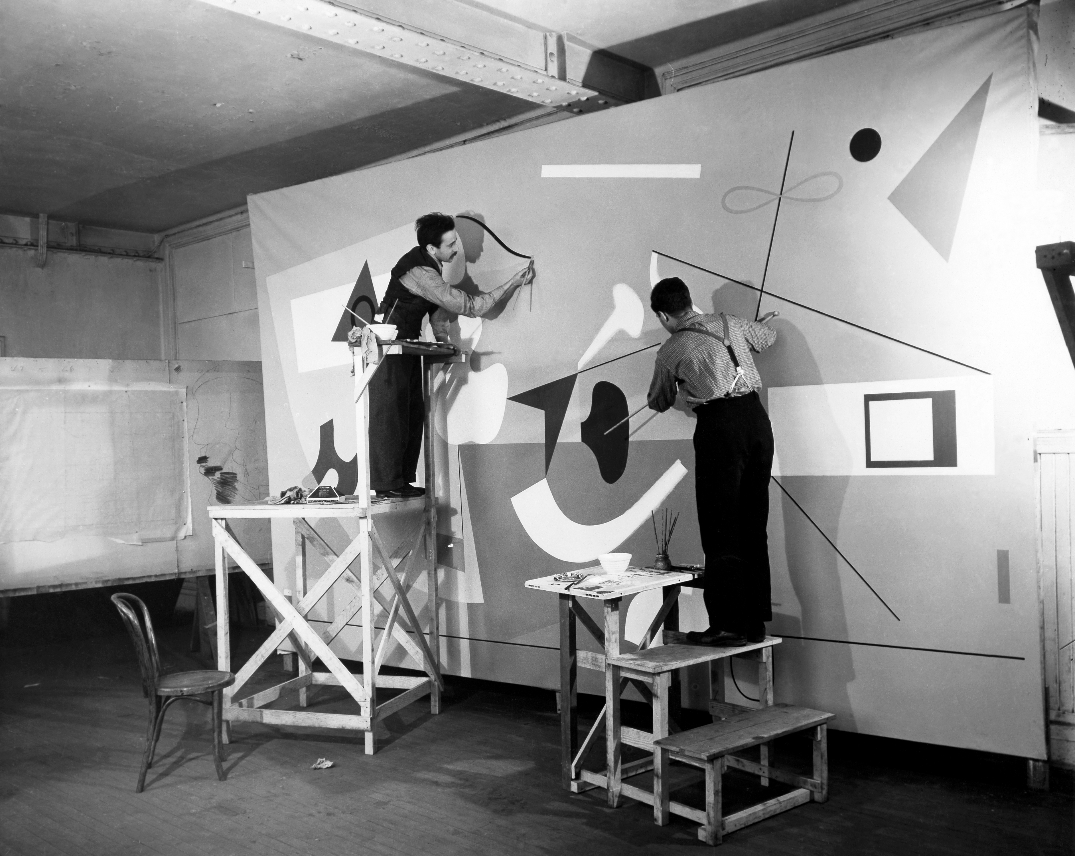 Photograph of artist Ilya Bolotowsky and assistant John Joslyn working on a mural for the Hall of Medical Sciences at the 1939 New York World's Fair Mural study for the 1939 New York World's Fair at The Living New Deal: Ilya Bolotowsky’s oil painting study for the Hall of Sciences mural at the 1939 World’s Fair in New York is today housed in the collection of the Art Institute of Chicago. It is all that remains of Bolotowsky’s mural commissioned by the Works Progress Administration’s Federal Arts Projects, as all murals made for the World’s Fair were destroyed at the Fair’s closure (Mahoney, p. 261). Bolotowsky is a generally overlooked pioneer of American abstract art and this work is a testament to the brilliance of his art, which he was given ample opportunity to practice through the New Deal. Thus, this study is a vital work not only as evidence of the lost mural, but also as a significant addition to the understanding of the federally funded artwork made under the New Deal’s projects. Study for the Hall of Medical Sciences Mural at the 1939 World's Fair in New York, 1938/39 at the Art Institute of Chicago